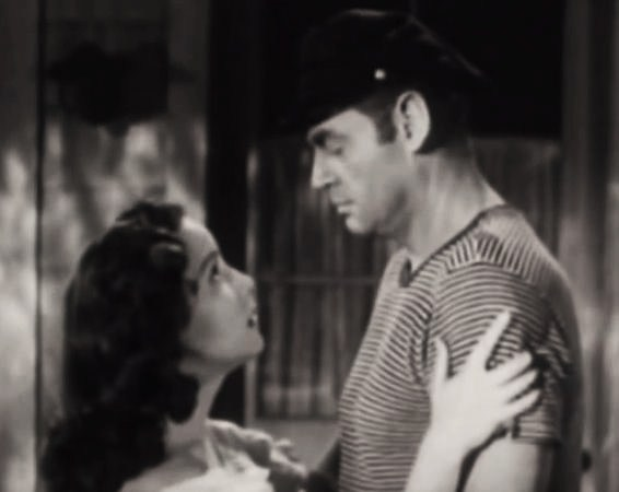 Carol Thurston & Johnny Weissmuller in Swamp Fire - cropped screenshot